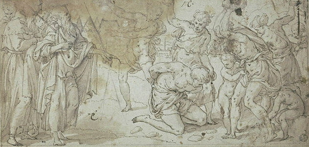 The Blasphemer, as in Leviticus 24:13-23, by Niccolò dell'Abbate (1509 or 1512 – 1571); pen, brown ink, brown wash, and pierre noire on paper; at the Musée du Louvre, Paris; according to the Louvre database, the title of this work is "The stoning of the prophet Jeremiah"